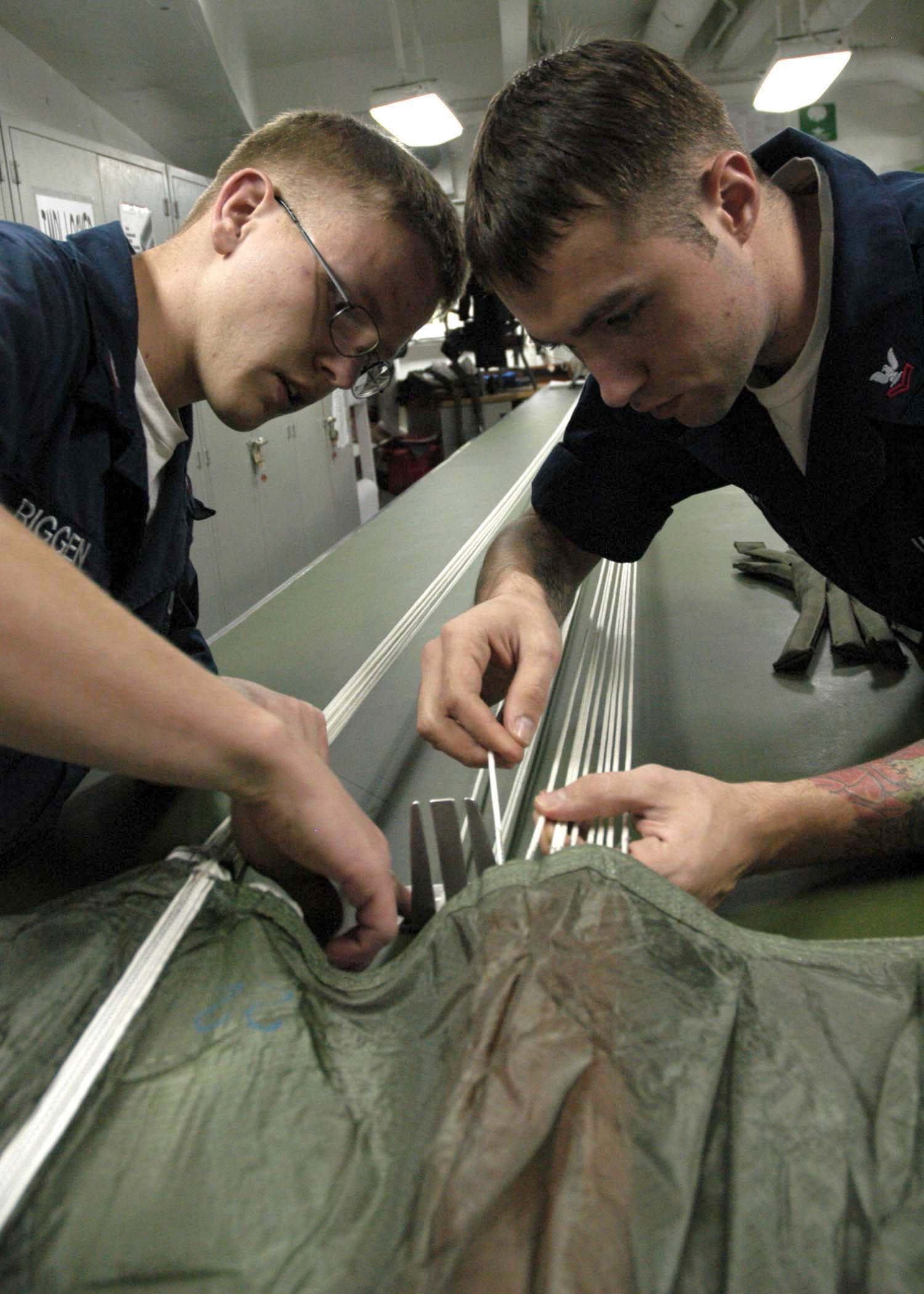 Pacific Ocean (Dec. 1, 2004) - Aircrew Survival Equipmentman 2nd Class Brock Riggen, left, and Aircrew Survival Equipmentman 2nd Class Dustin Goldapp whip and fold gores of a parachute during a 224-day inspection in the paraloft aboard the Nimitz-class aircraft carrier USS Abraham Lincoln (CVN 72). Lincoln and embarked Carrier Air Wing Two (CVW-2) are currently deployed to the Western Pacific Ocean. U.S. Navy photo by Photographer's Mate Airman Apprentice Timothy C. Roache Jr. (RELEASED)